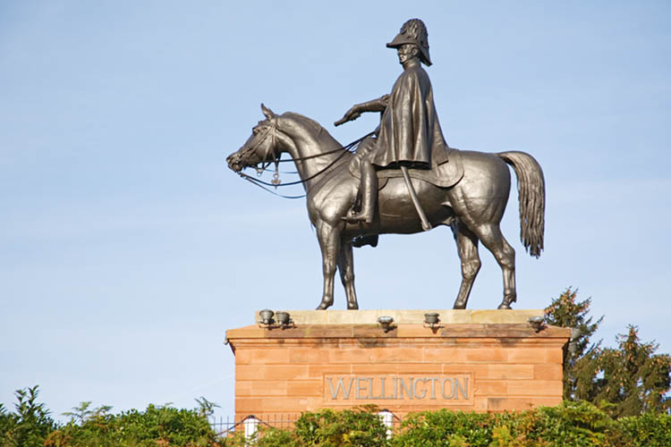 1st Duke of Wellington astride Copenhagen his charger in Matthew Wyatt's statue on Round Hill, Aldershot Author: Antony McCallum